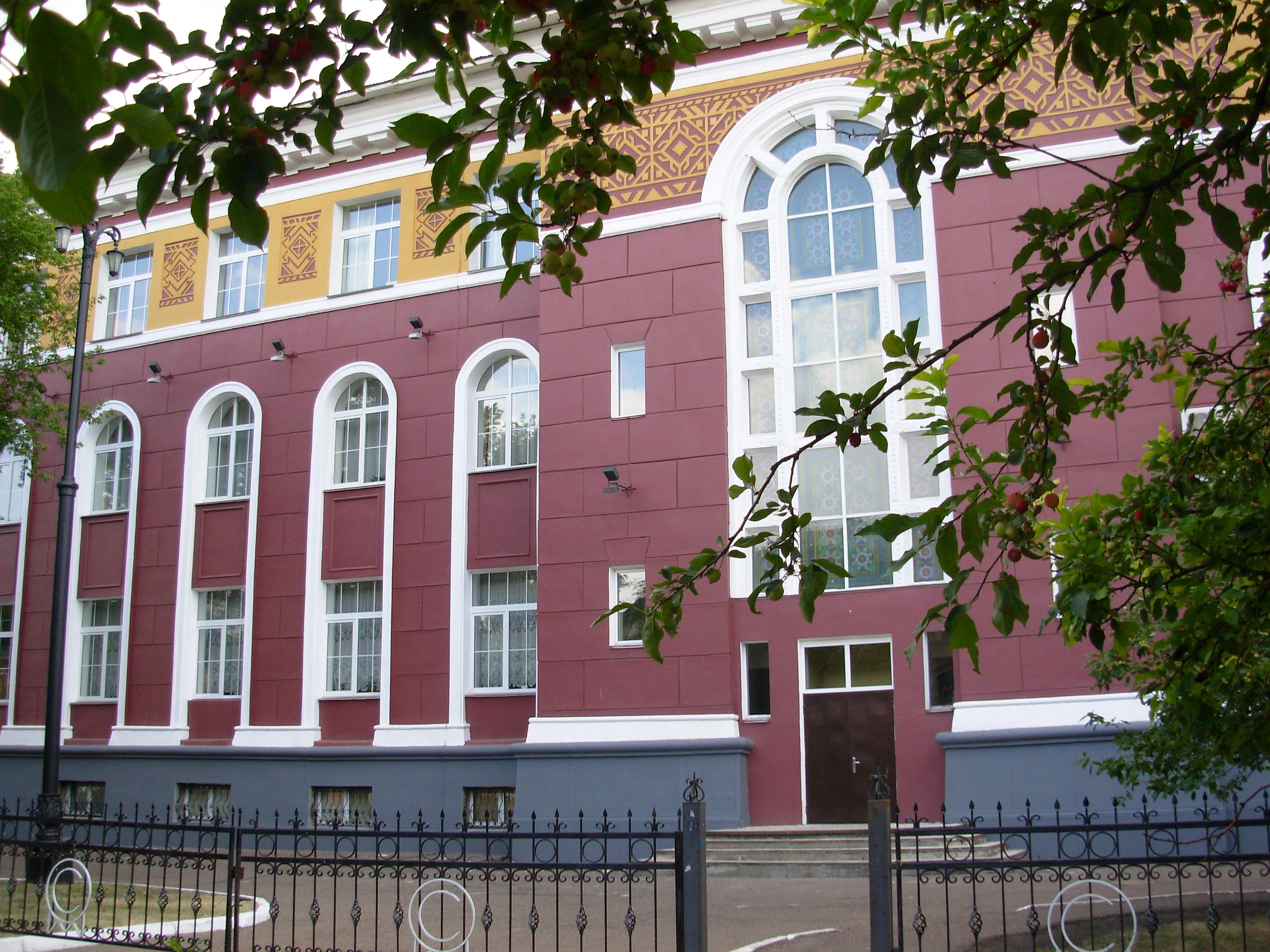 palace of culture Salavat